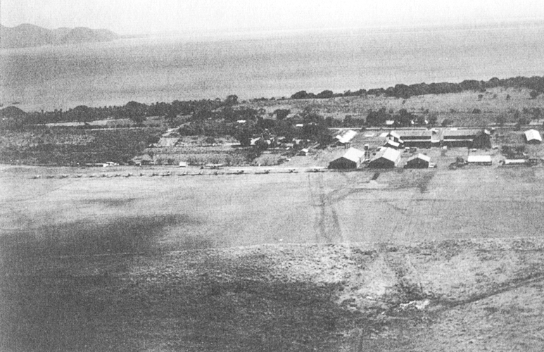 United States Marine Corps air base at Managua, Nicaragua during the occupation, circa 1930.